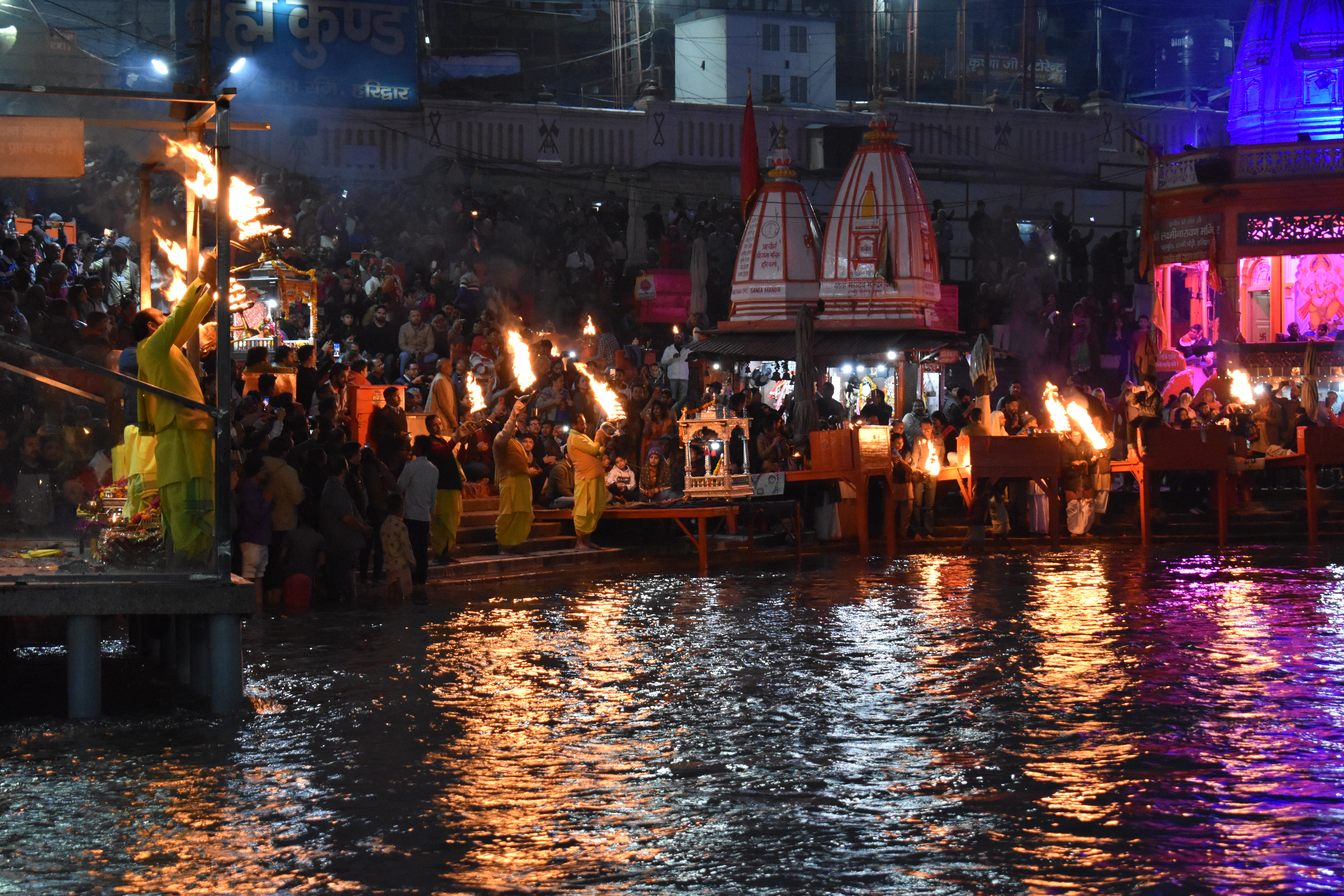 ganga aarti at har ki paudi haridwar